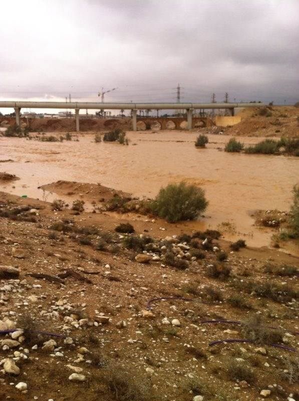 Water flows in Beersheba stream. Beersheba Stream, located in the desert city of Beersheba, is arid most of the year. Rarely, after a rain storm during the winter, there is a strong water flow. Photographed in December 2013